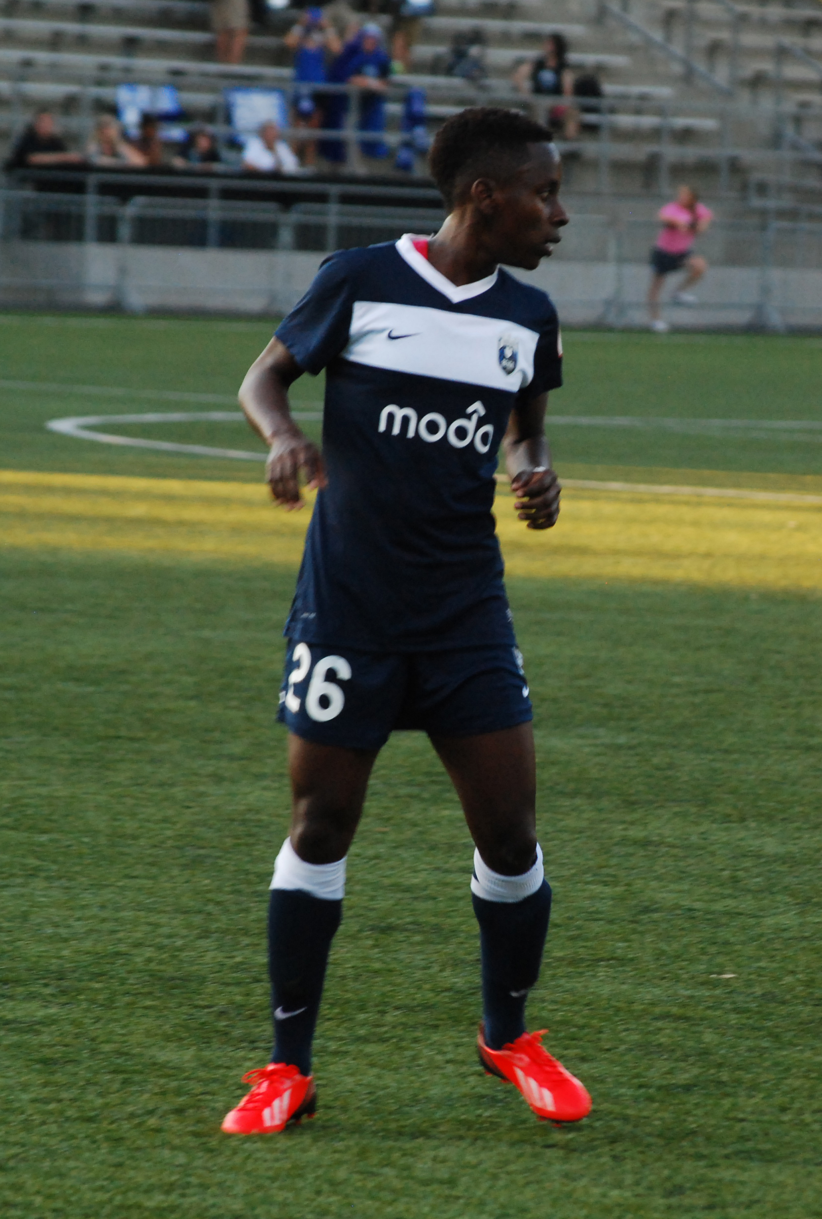 Cordner during a match against the Chicago Red Stars at Starfire Stadium in Tukwila, Washington on June 30, 2013